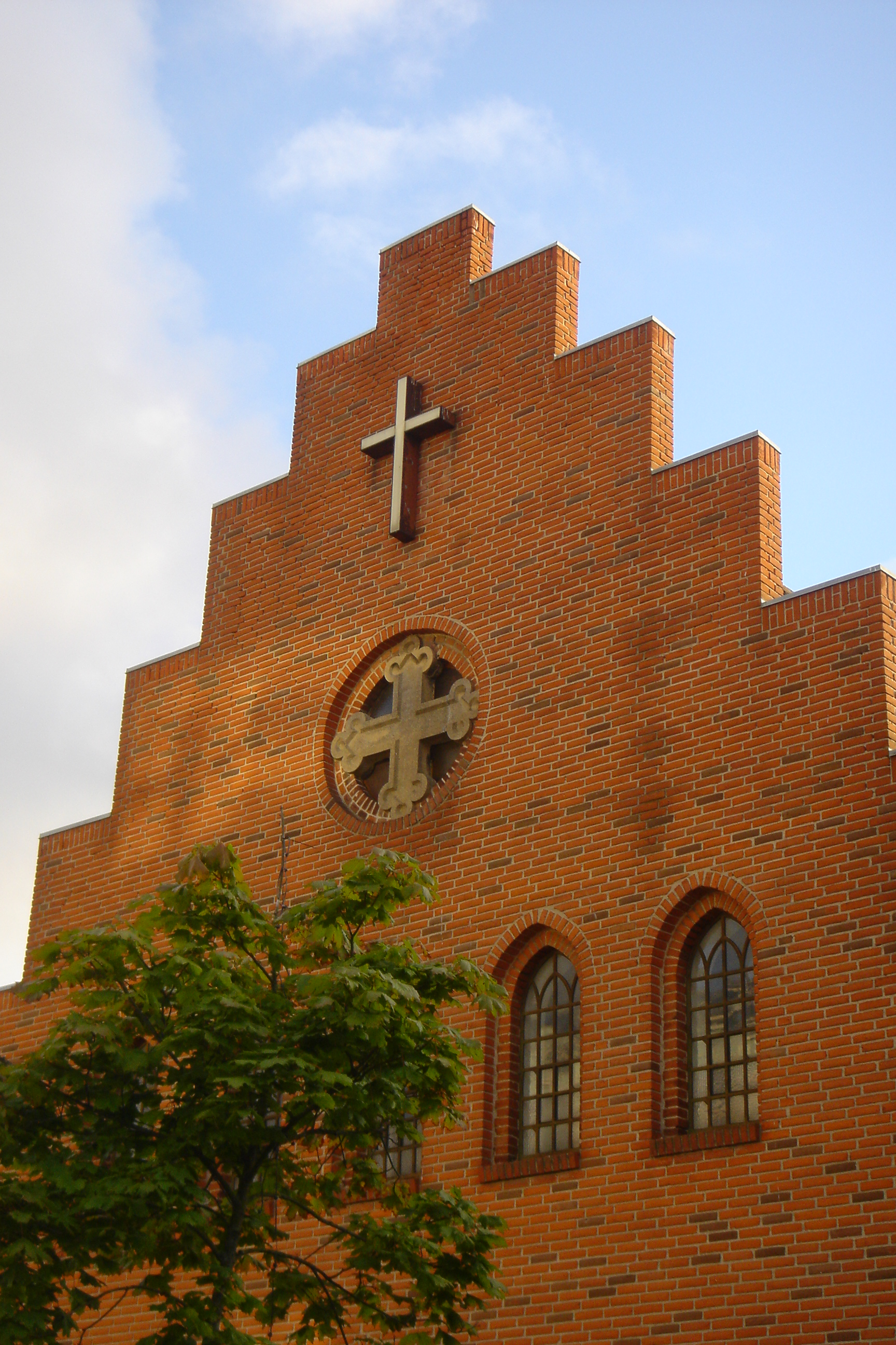 Hjoerring Baptist Church